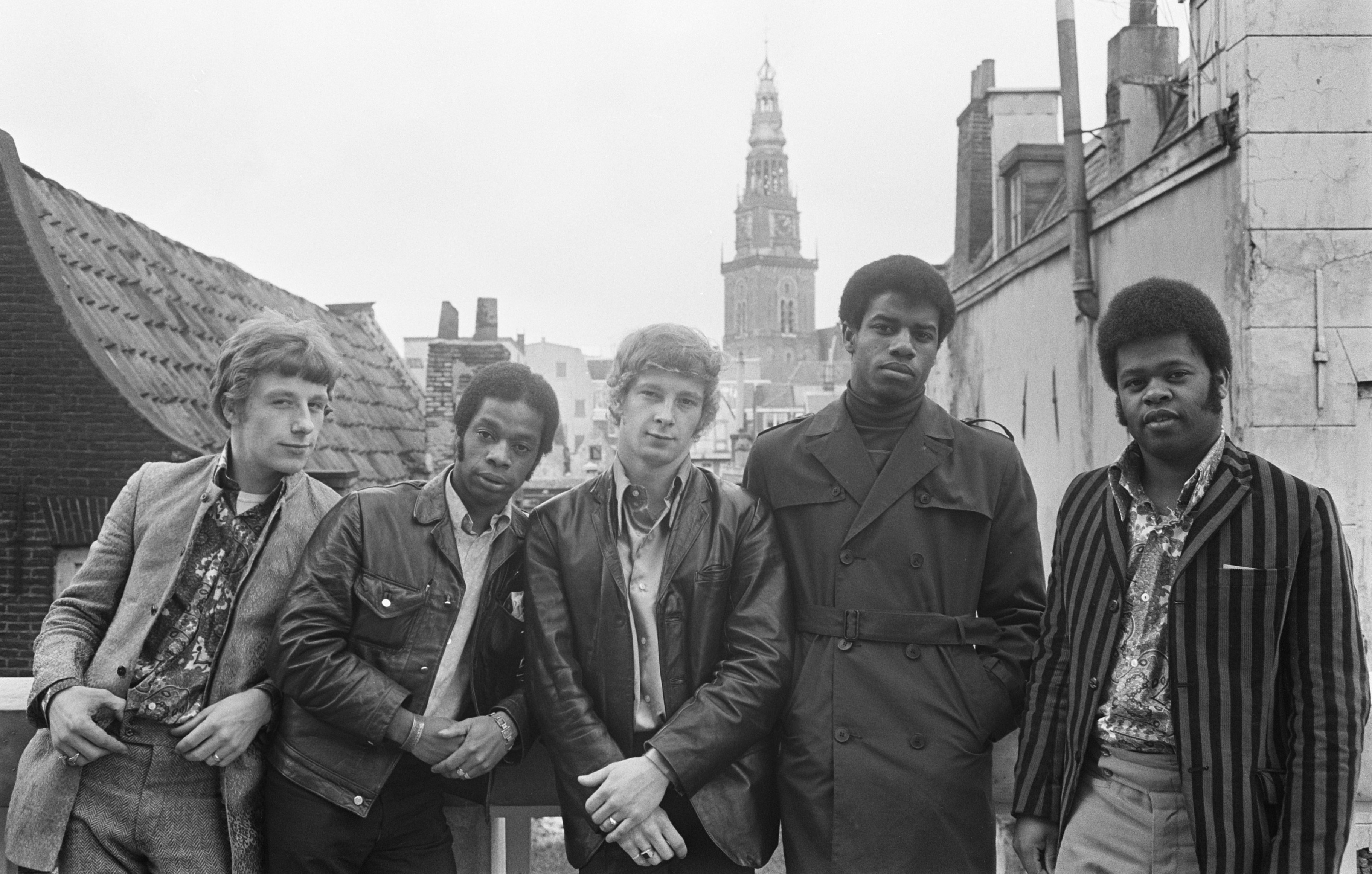 The Equals in Amsterdam (29 April 1968)